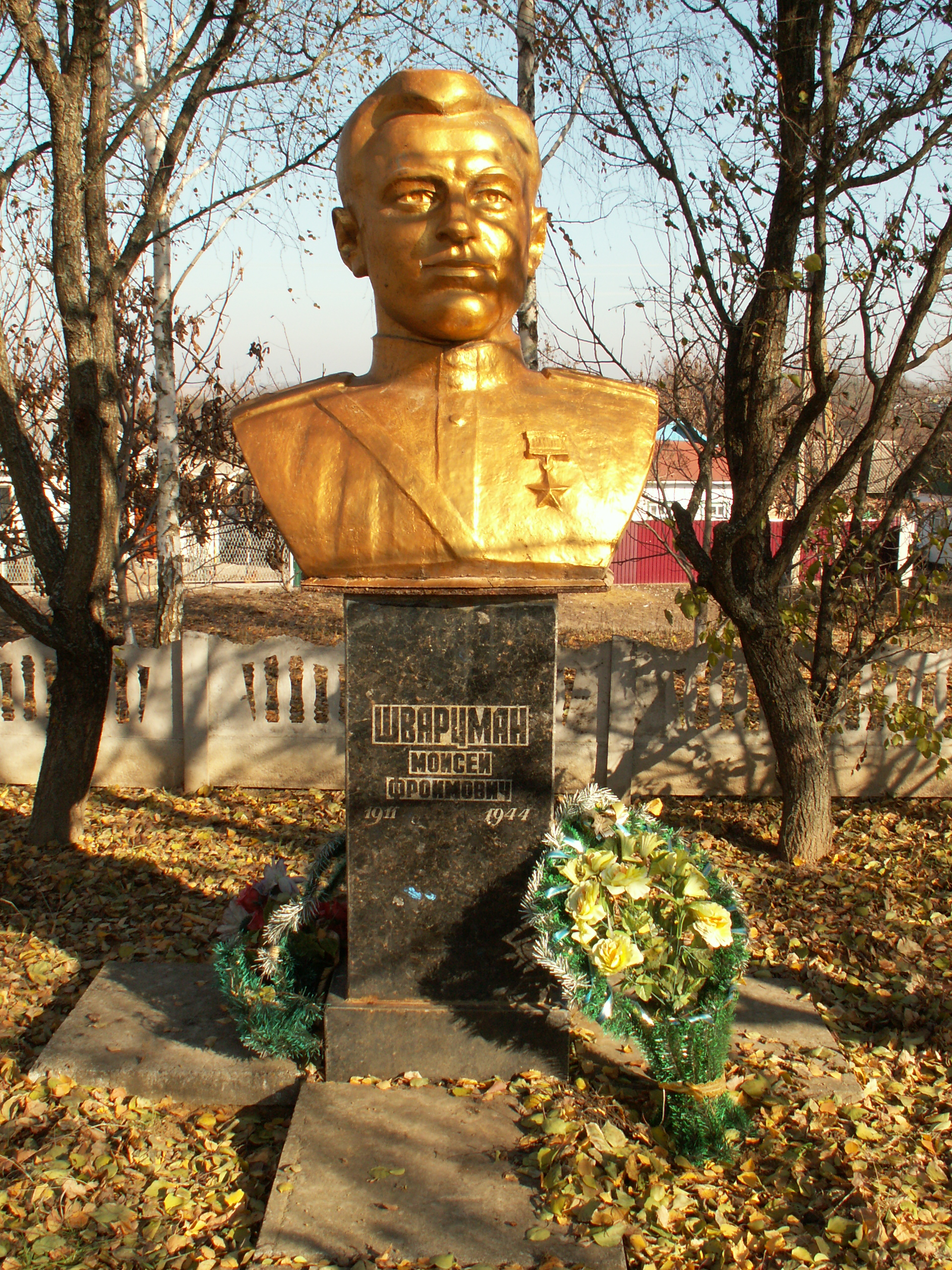 Бюст Героя Радянського Союзу Шварцмана